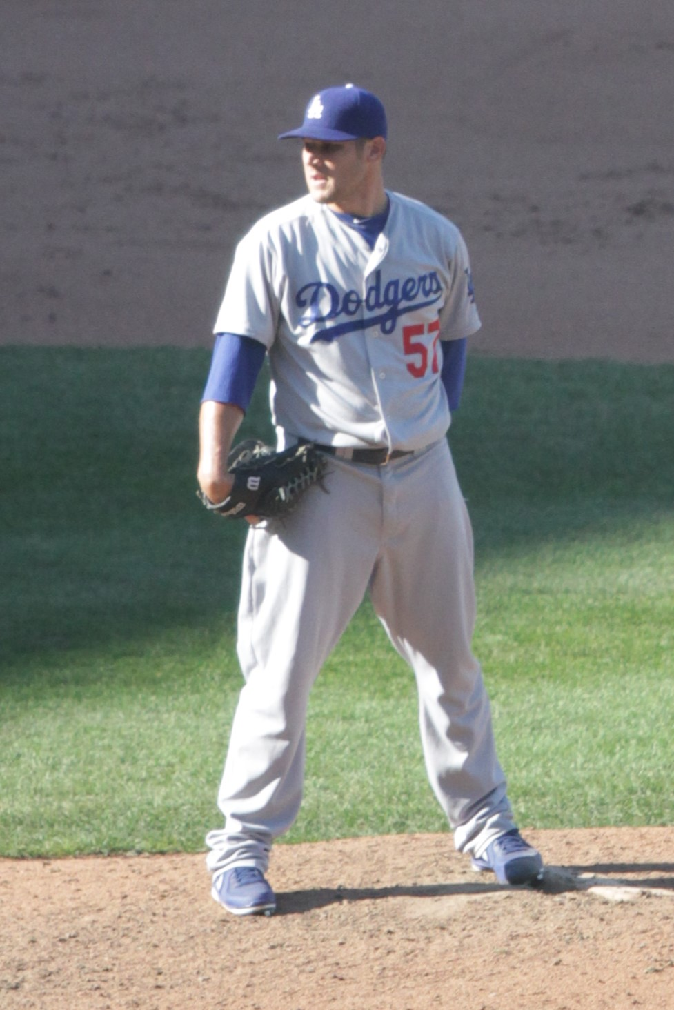 Scott Elbert for the 2014 Los Angeles Dodgers against the 2014 Chicago Cubs at Wrigley Field.